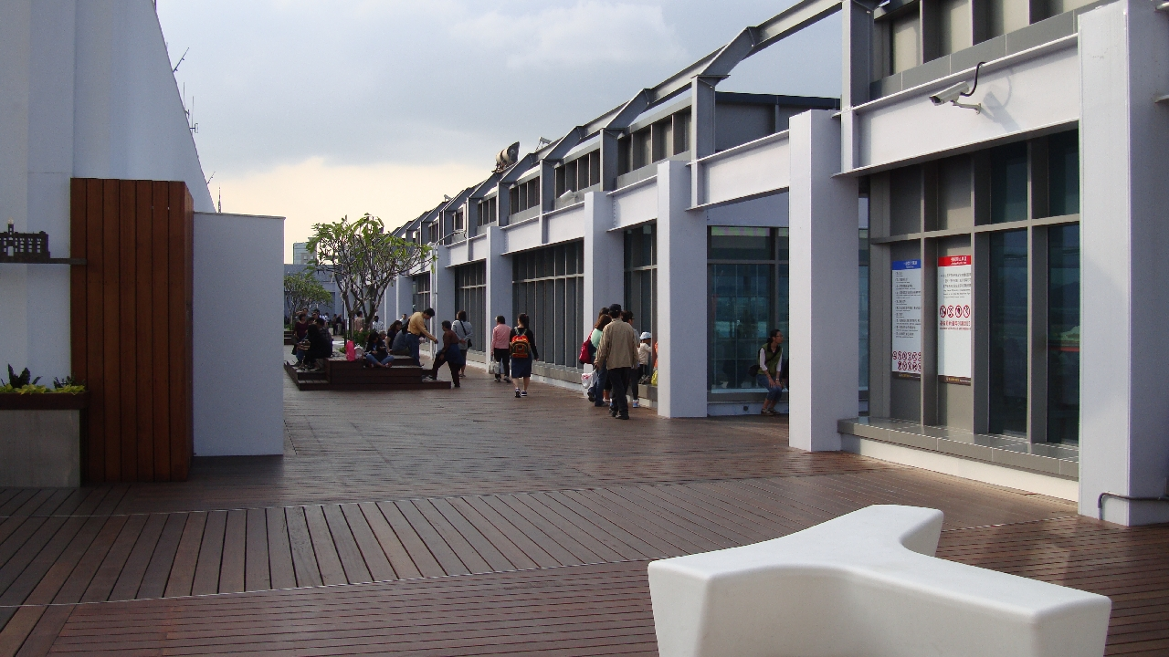 Songshan Airport observation deck, panoramic.